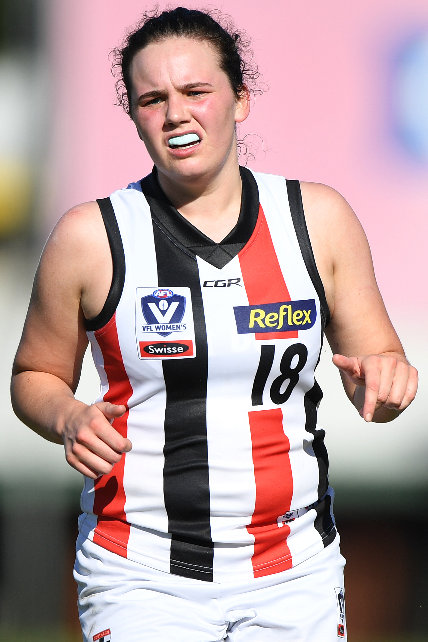 Olivia Vesely of the Southern Saints during the 2019 VFLW round 2 match between NT Thunder and the Southern Saints at TIO Stadium on Saturday, 18 May 2019 in Darwin, Northern Territory.